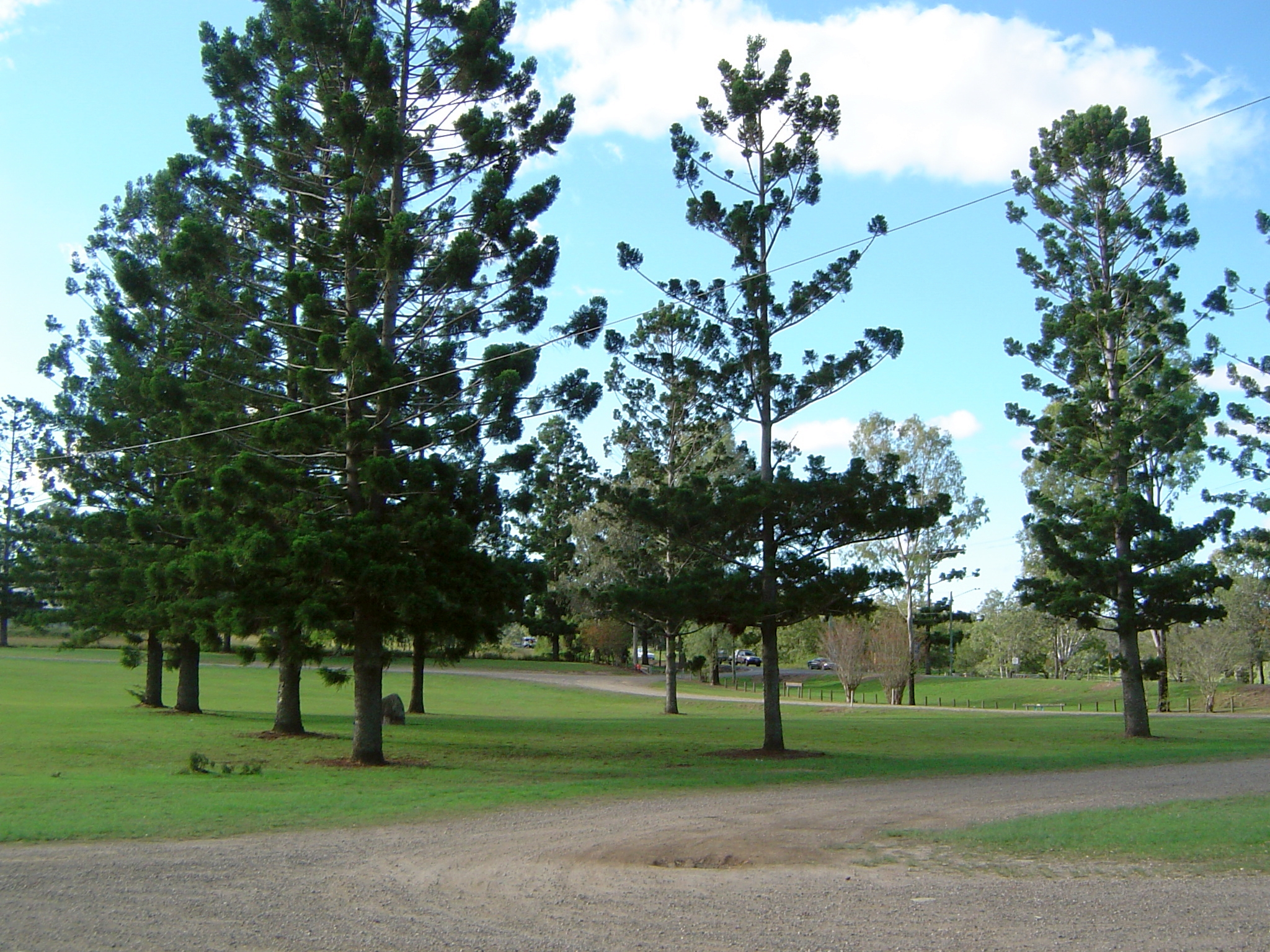 Photo of Tully Memorial Park at North Maclean in City of Logan, Queensland, Australia.